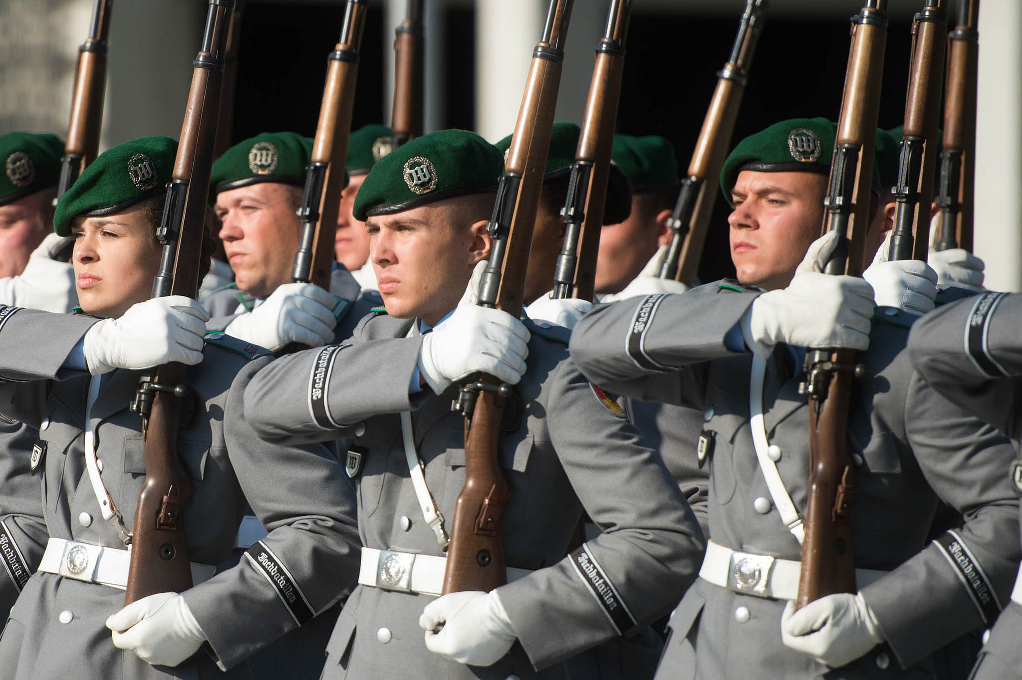 German honor guard members stand in formation at the Defense Ministry in Berlin,, Sept. 10, 2015. DoD photo by D. Myles Cullen